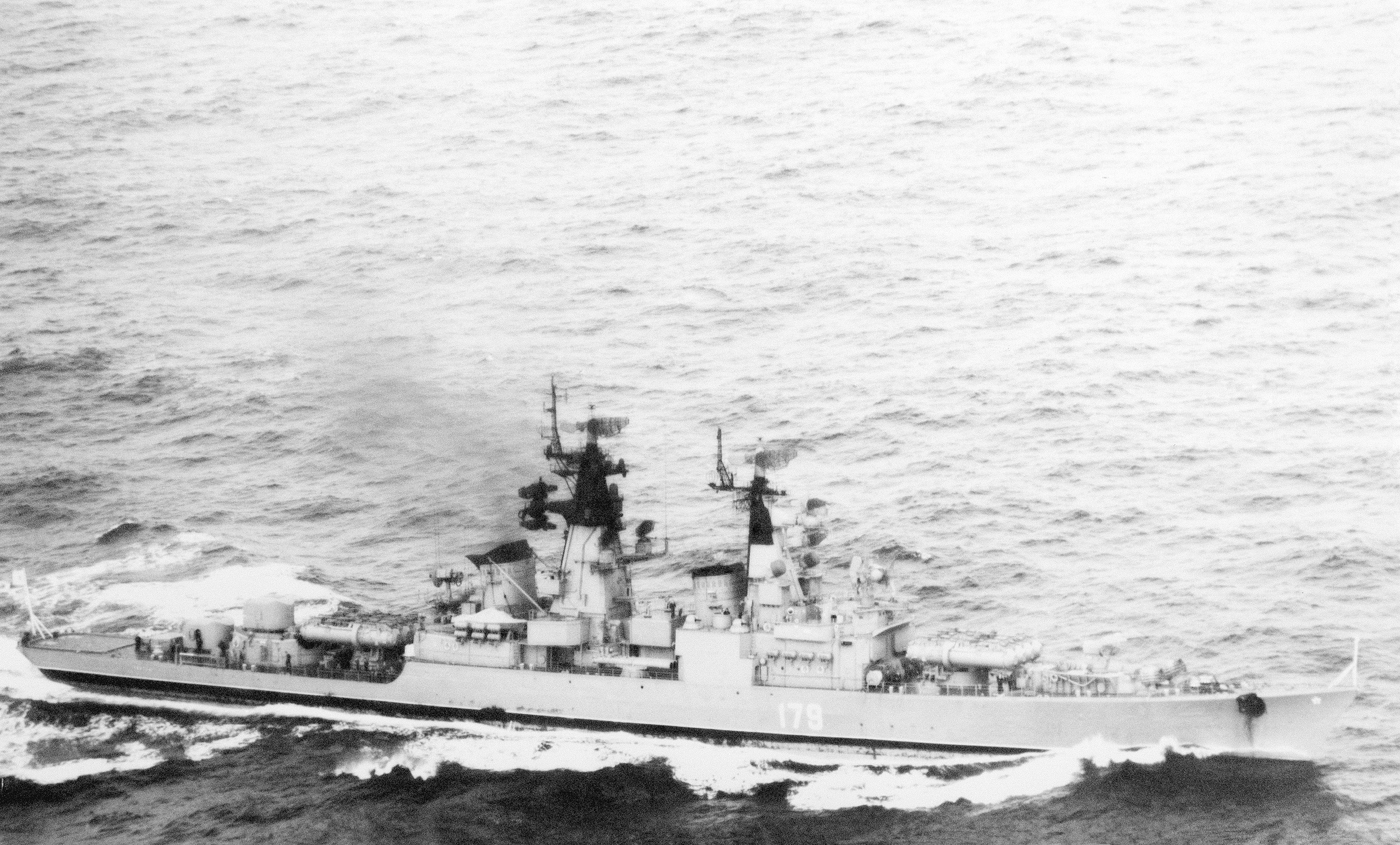 An elevated starboard view of the Soviet guided missile cruiser GROZNYY underway. (SUBSTANDARD)